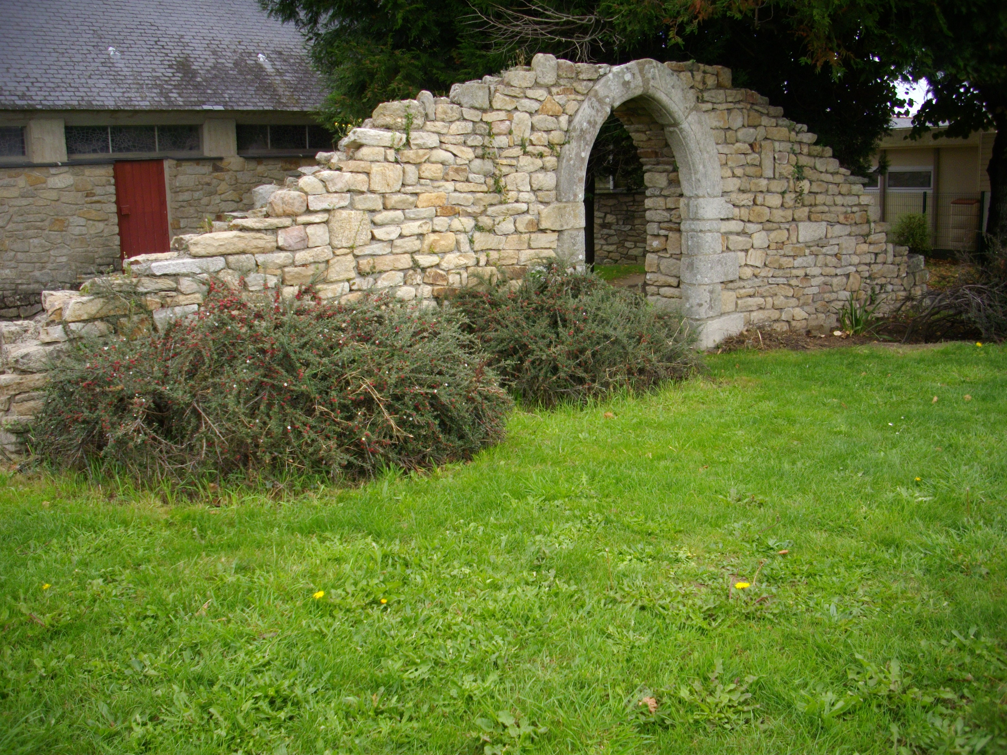 Main entry of former Saint Guen chapel in Vannes (Morbihan, France) .